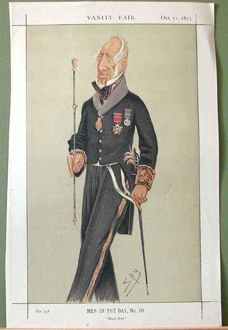 Caricature of Sir Augustus William James Clifford, 1st Baronet. Caption reads Black Rod.